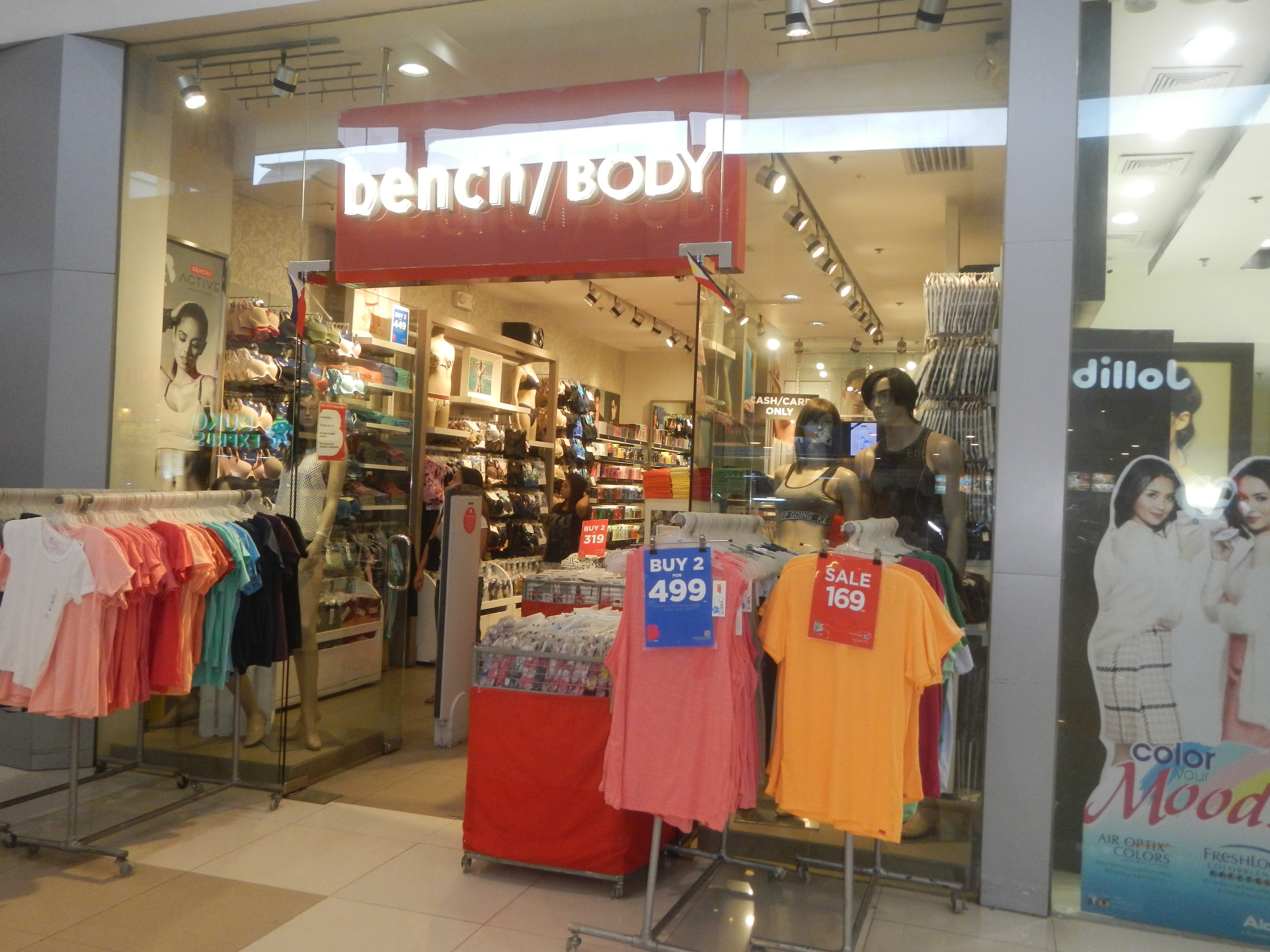 Fun House, Onésimus, Executive Optical, Miniso Miniso in the Philippines, World of Fun King Sisig & Bulalo World, Surplus, Dairy Queen (Note: Judge Florentino Floro, the owner, to repeat, Donor Florentino Floro of all these photos hereby donate gratuitously, freely and unconditionally all these photos to and for Wikimedia Commons, exclusively, for public use of the public domain, and again without any condition whatsoever).